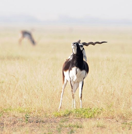 Photo cut